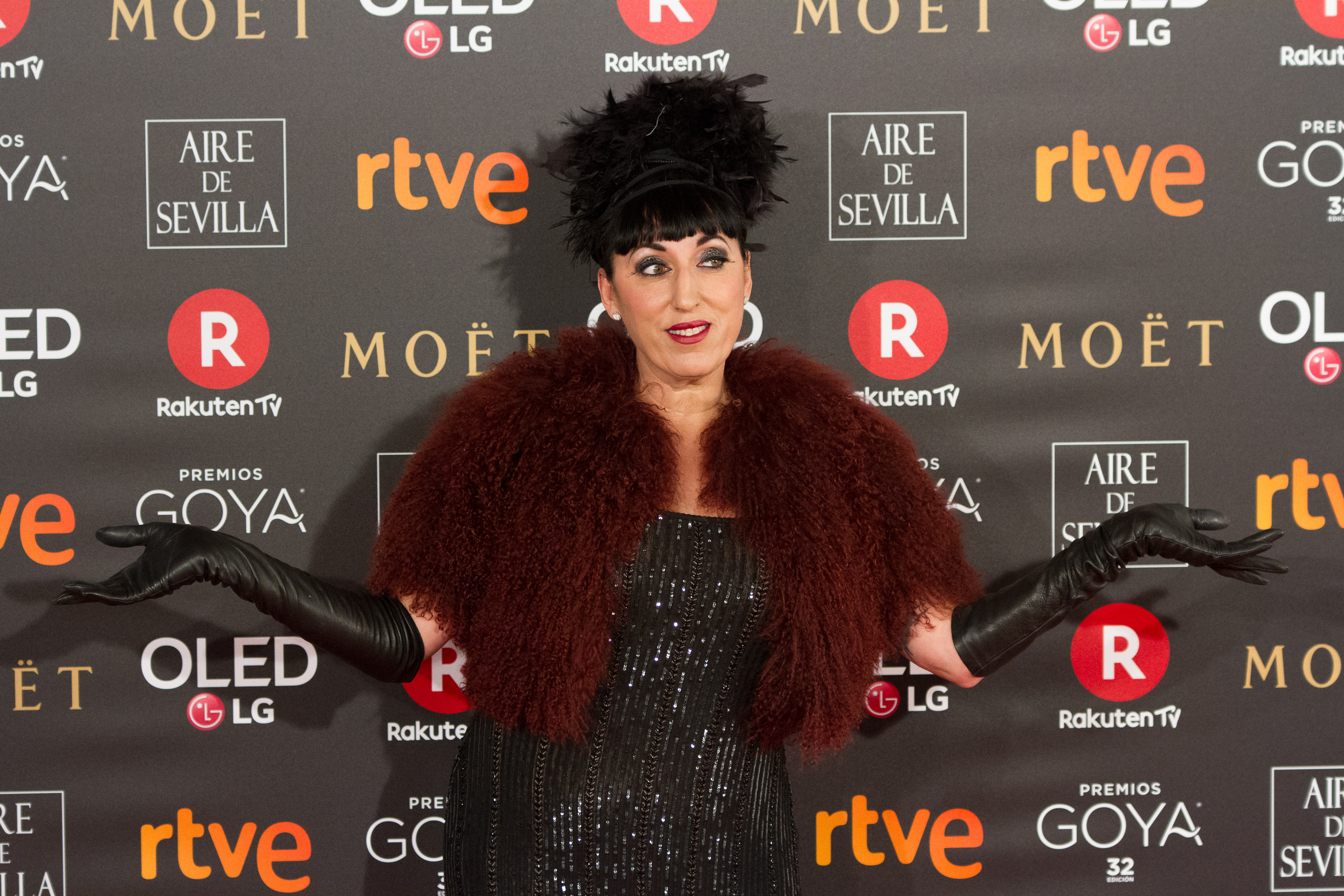 32nd Goya Awards, 2018.